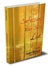 CONFESSIONS OF A WAR CHILD (LIA)Second book by Chaker Khazaal